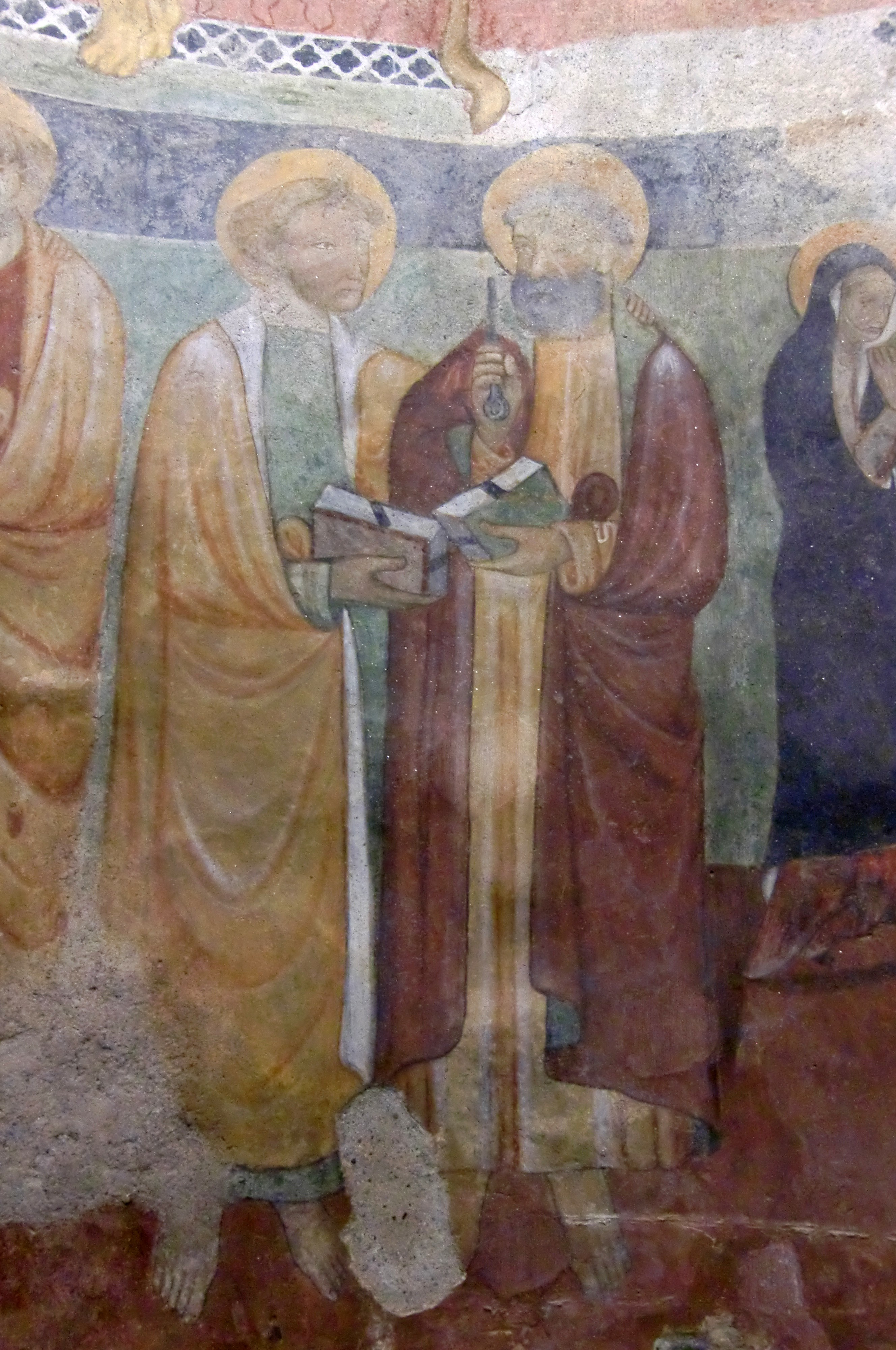 Unknown painter of the XV century, Apostles"; fresco, Cappella di Cappella di Santo Spirito ed Evasio, Oglianico (Italy)